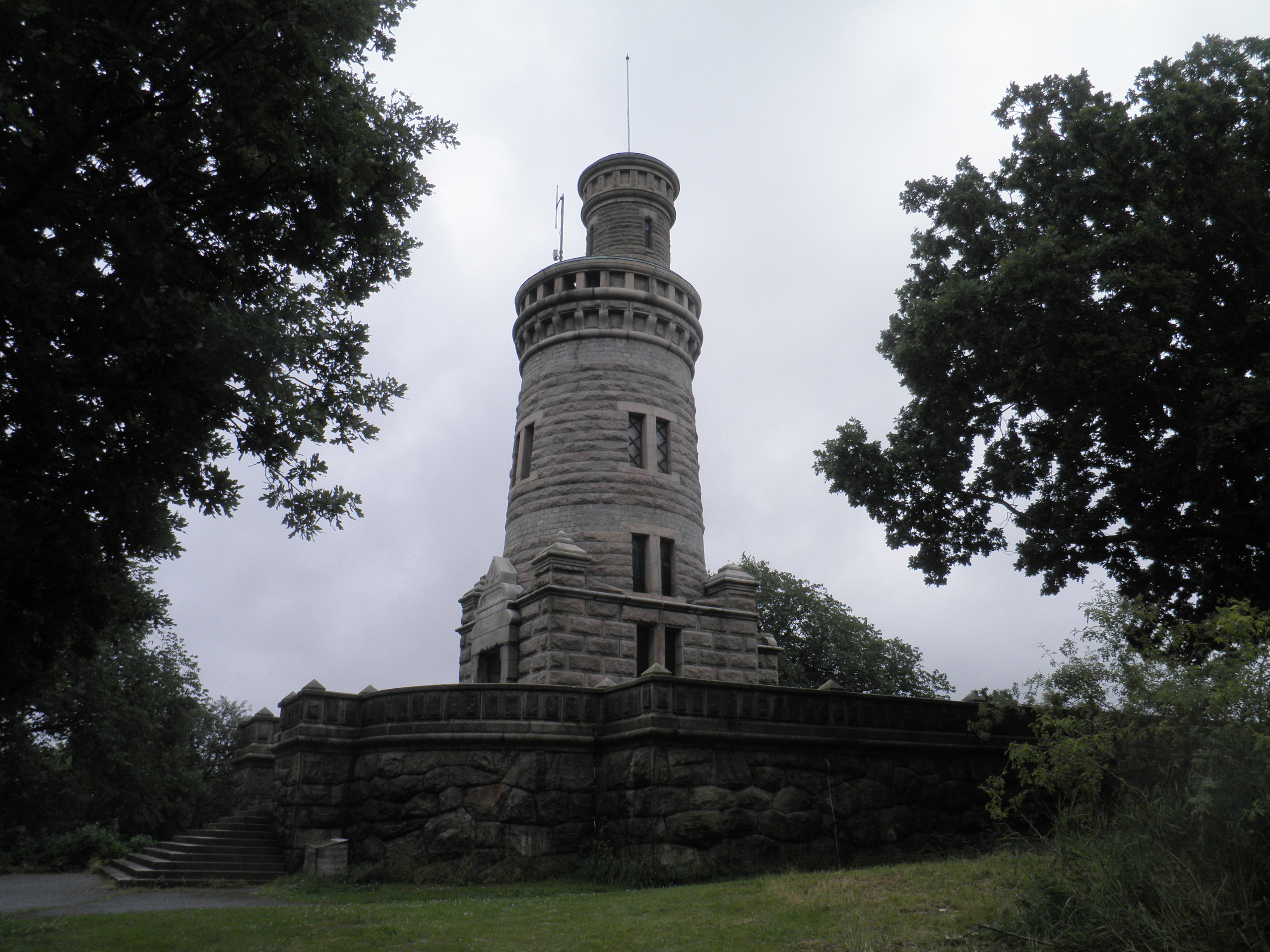 Observation tower, former water tower, Slottsskogen, Göteborg, Sweden. Adrian Crispin Peterson, 1899